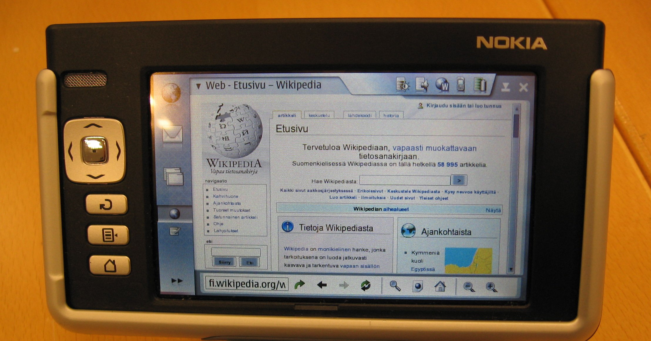 Picture of Nokia 770 on Finnish Wikipedia